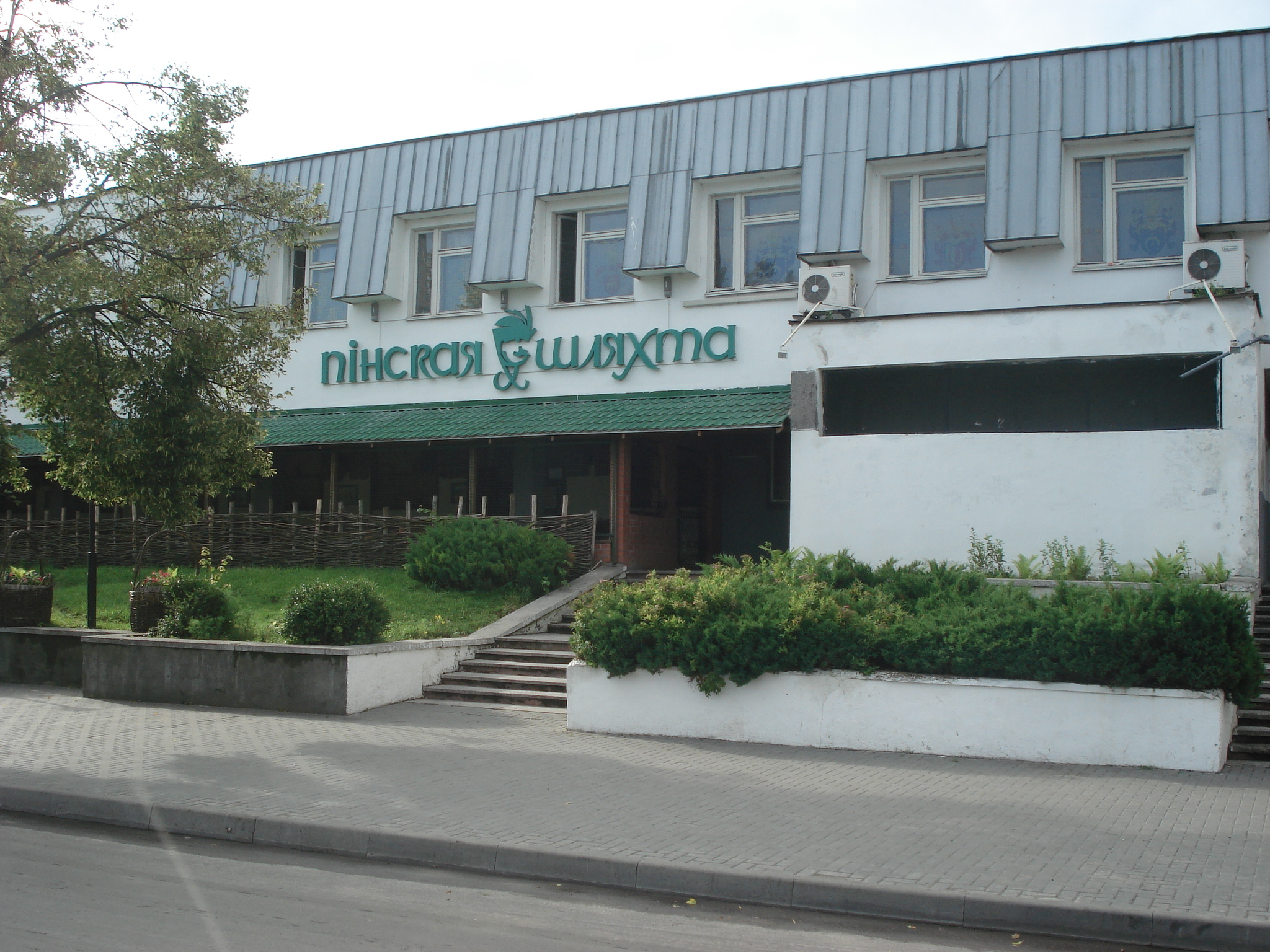 Restaurant, Pinsk